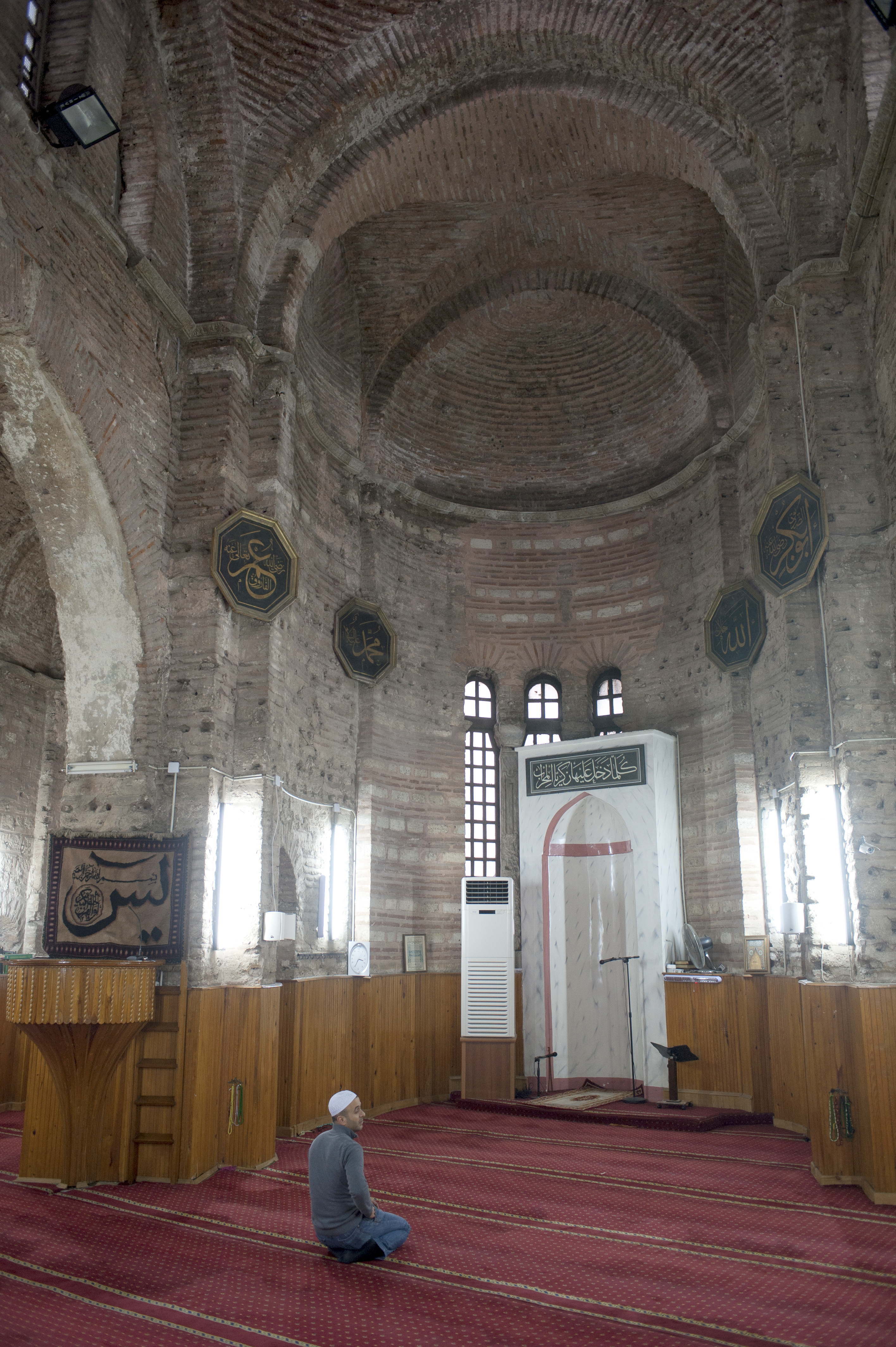 Mihrab of Fenari Isa Mosque, Fatih, Istanbul, Turkey.